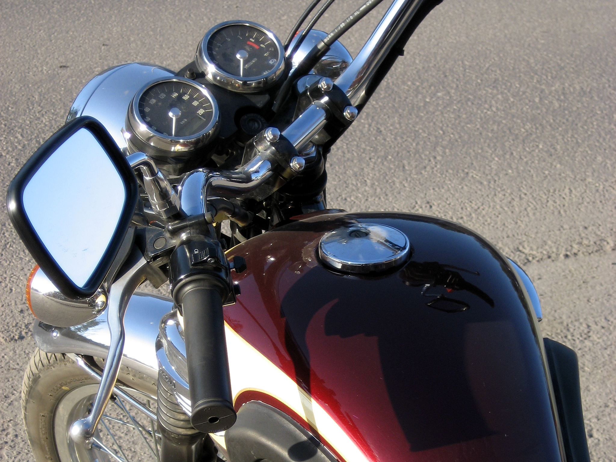 A rider´s view of Kawasaki´s retro motorcycle W650 (1999 model). This model is fitted with a set of high handle bars. The speedometer and tachometer are fully electronic, even though they look conventional. The fuel tank with rubber knee pads holds 15 litres of gasoline. The motorcycle was first introduced in Japan in 1998, and imported between 1999—2006 to Europe.